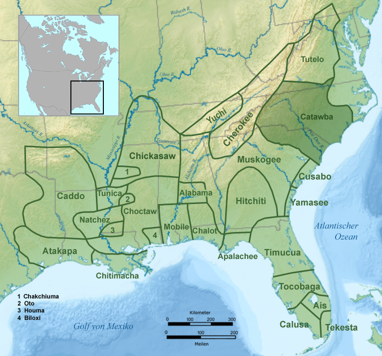 Tribal territory of Catawba during seventeenth century